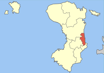 Locator map of Amani municipality (Δήμος Χίου) in Chios prefecture (Νομός Χίου) in Greece.